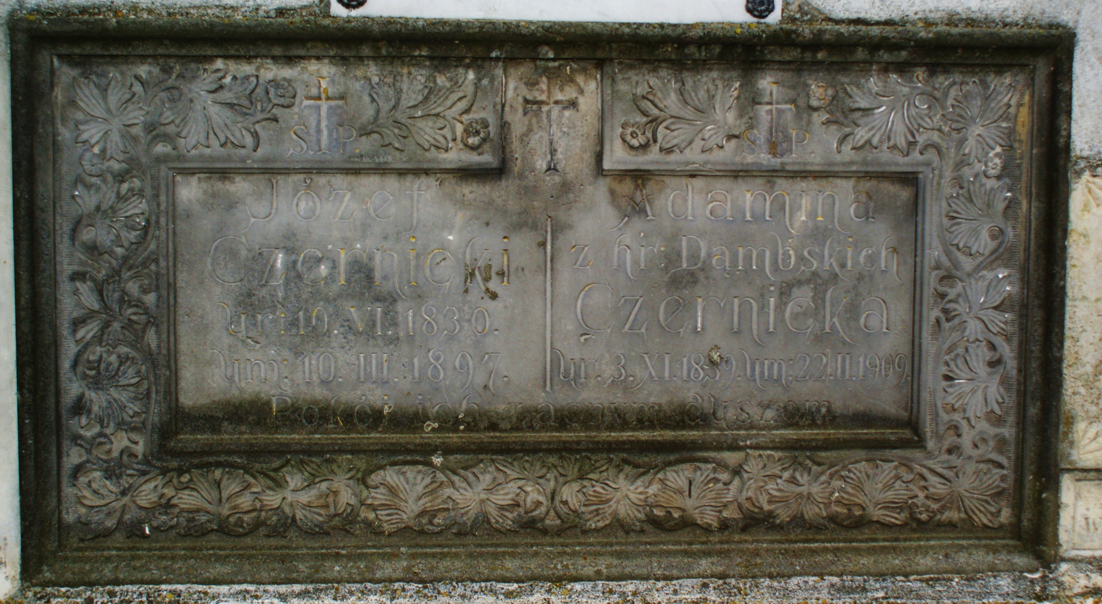 Epitaph of Józef Czernicki & Adamina Czernicka nee (Count) Dąmbska, Czernicki Mausoleum on parish cemetery, Krzywosądz, Kuyavian-Pomeranian Voivodeship, Poland. Inscription on the epitaph: "RIP Józef Czernicki born 10.VI.1830 died 10.III.1897, RIP Adamina Czernicka nee {Count} Dąmbska born 3.XI.1839 died 22.II.1909, (the very bottom) Peace to their noble souls"